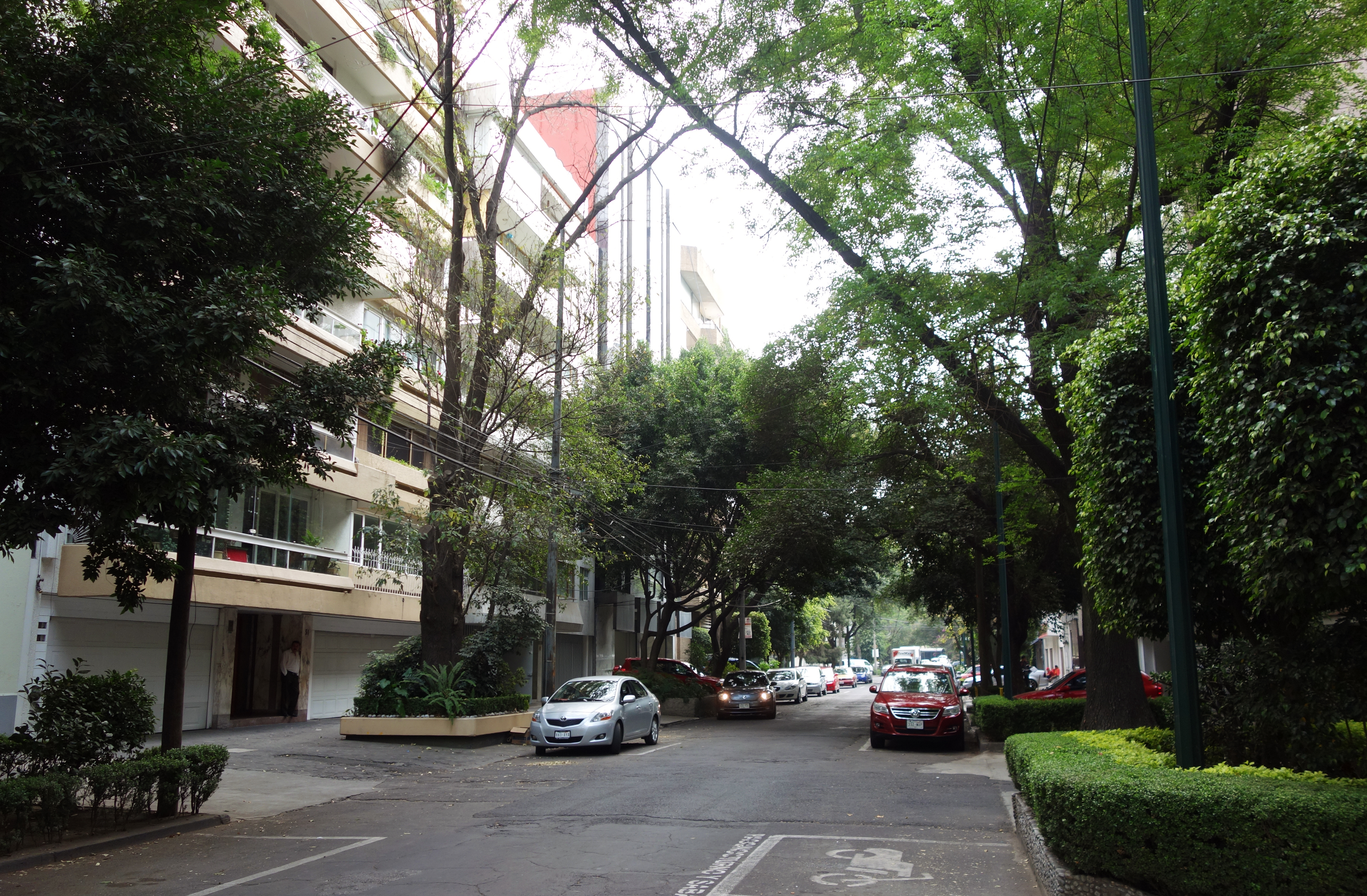 Calle Enrique Ibsen in Polanco, Mexico City